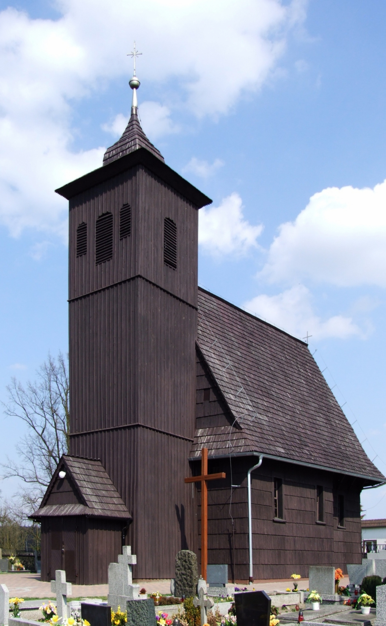 All Saints church in Lasowice Wielkie (Gross Lassowitz), Upper Silesia